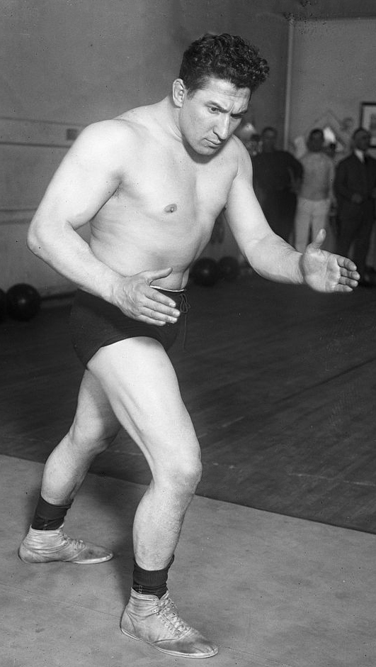 Photo is of Renato Gardini, Italian wrestling challenger, prepared for his wrestling match with Lewis. Gardini trained diligently for the bout, which he succeeded in getting only after running up seven straight victories against international stars. He is to enter the arena handicapped by about thirty pounds in weight. 'Strangler' Lewis, title holder, weighs 220 pounds.